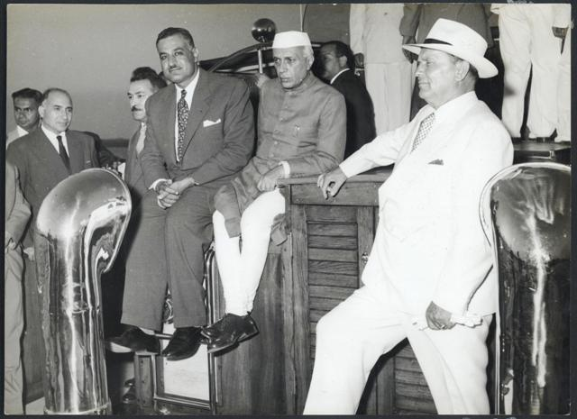 Jawaharlal Nehru’s tour of Belgrade, Yugoslavia, 1961